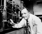 Alfred Gilman, Sr. - father of Alfred G. Gilman